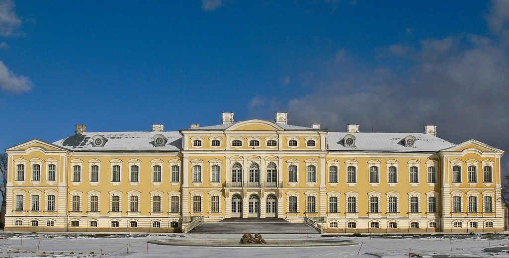 Rundāle Palace, Latvia.